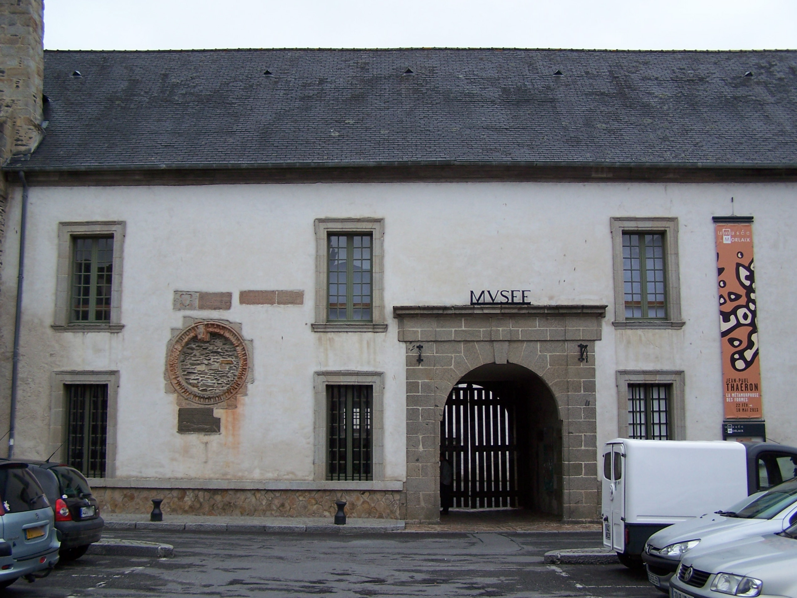 Musée des Beaux-Arts dans l'ancien couvent des Jacobins (XIIIe siècle) à Morlaix.